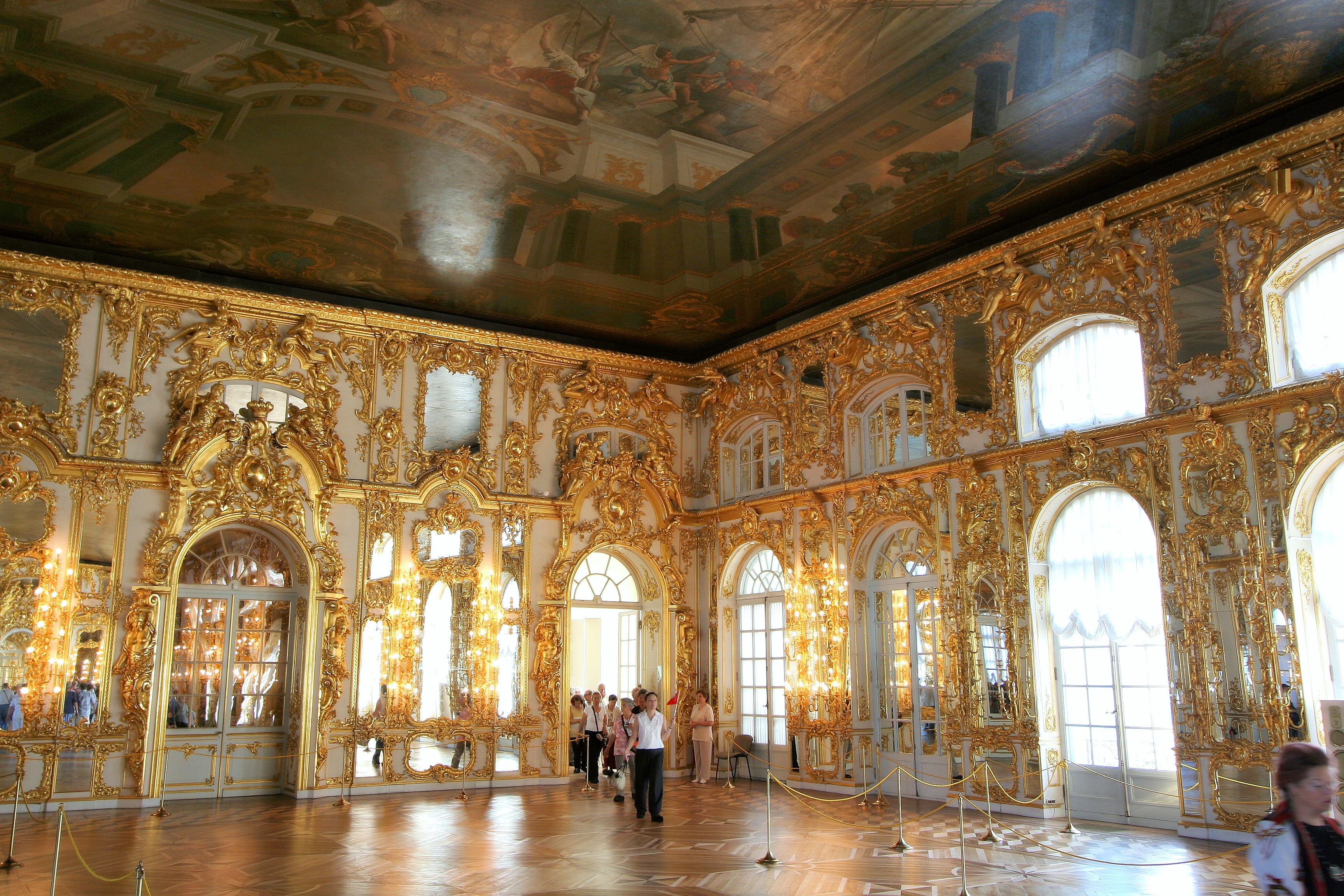 Pushkin (Russia), Great Hall of the Catherine Palace